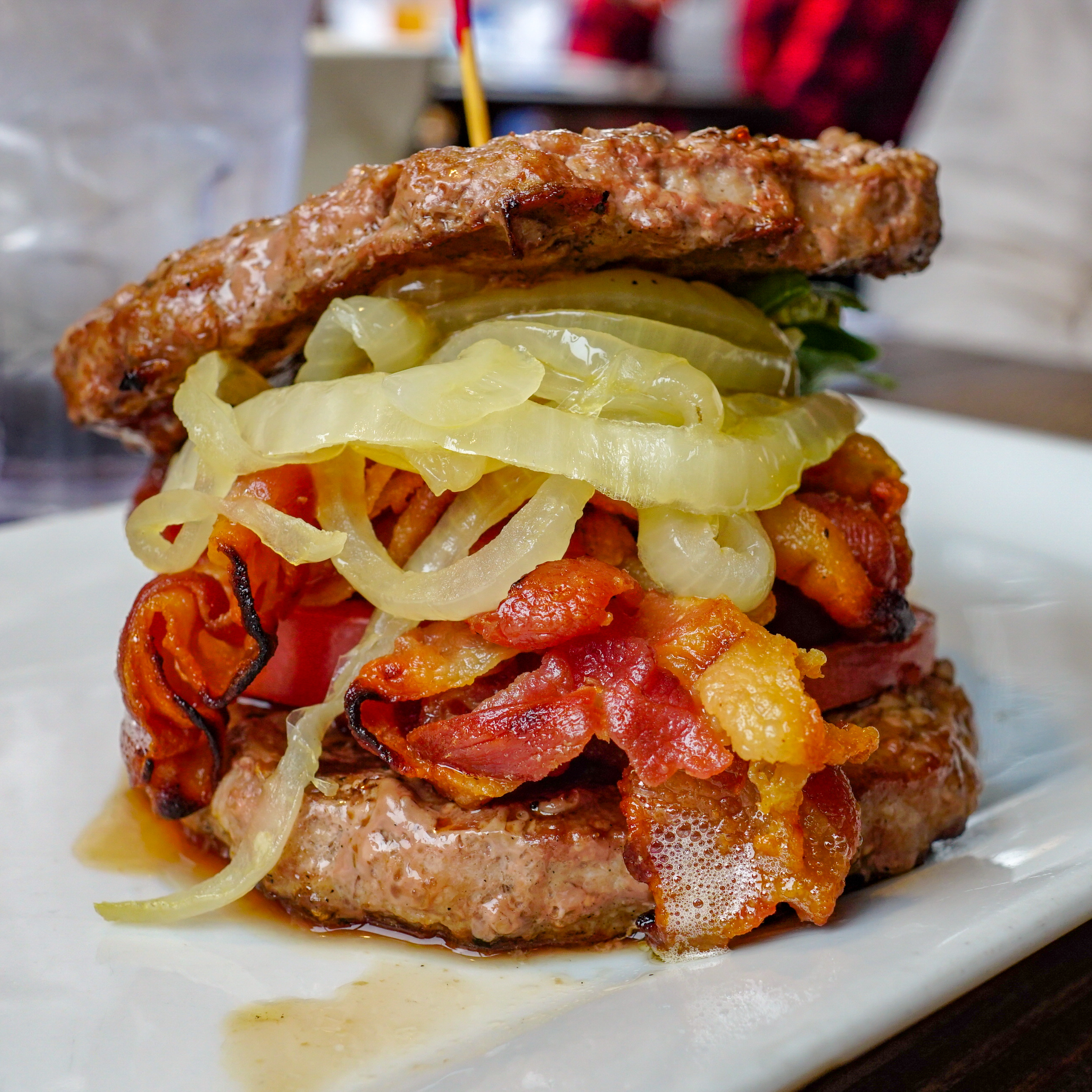 2019.01.18 LCHF Food, Washington, DC USA 09714